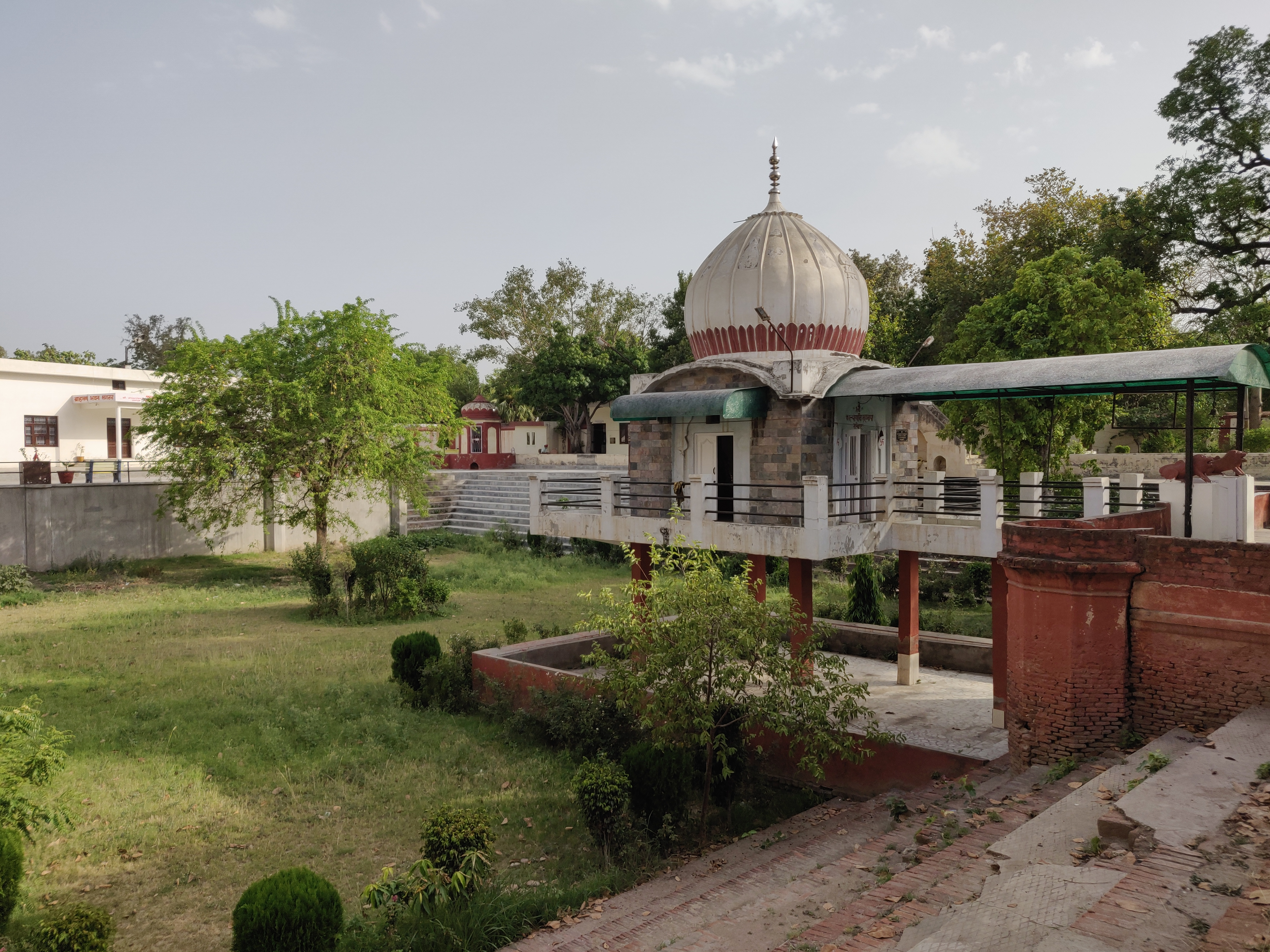 Side view of Rajrajeshwari Temple, Sangrur.